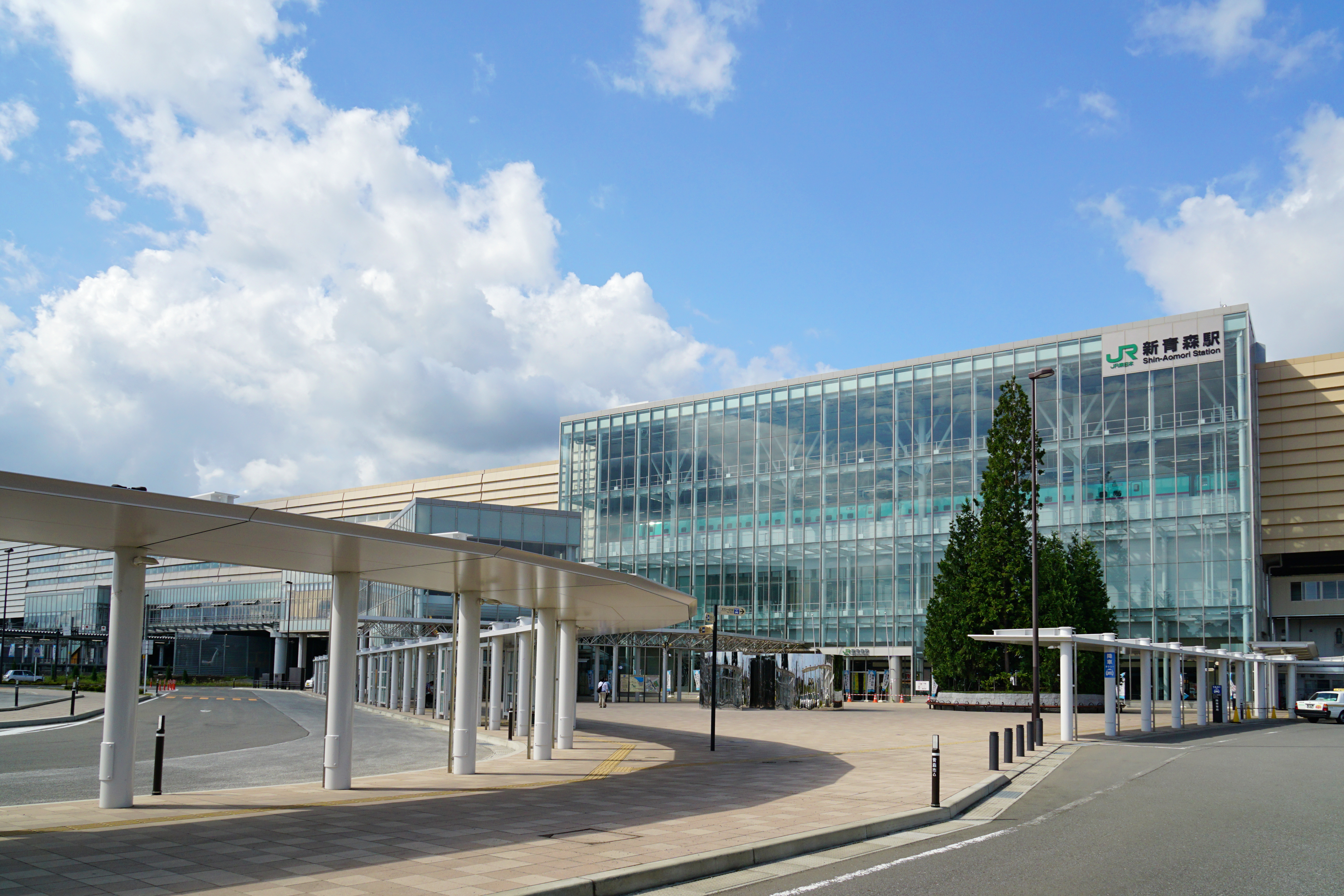 Shin-Aomori Station in Aomori, Aomori prefecture, Japan